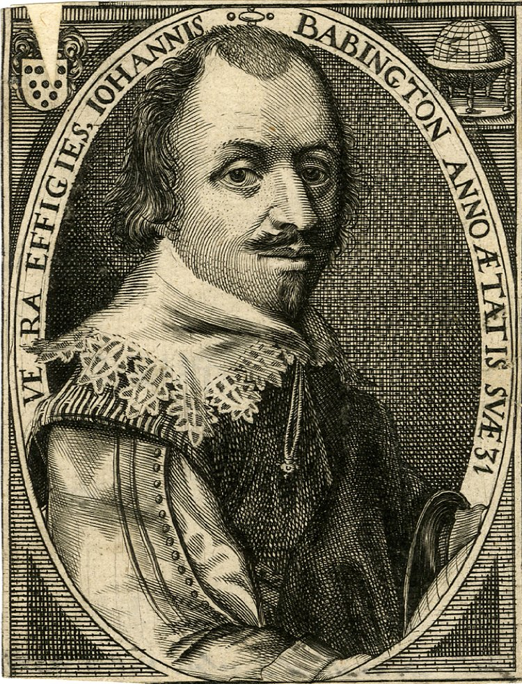 "Vera effigies, Iohannis Babington Anno Ætatis suæ 31," engraving of English mathematician John Babington, by the English printmaker John Droeshout. Dated 1635. 86 mm x 66 mm. From the title page to Babington's 'Pyrotechnia, Or a Discourse of Artificiall Fire workes for Pleasure.' Courtesy of the British Museum, London.